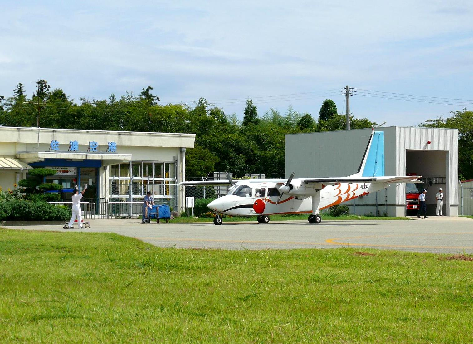 Britain Norman islander of Kyokushin Air that arrived at Sado airport.(Japan,).